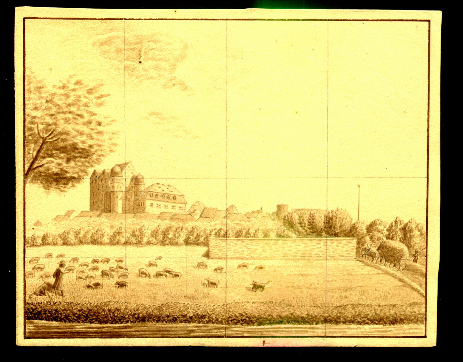 Heringen/Helme (1820)